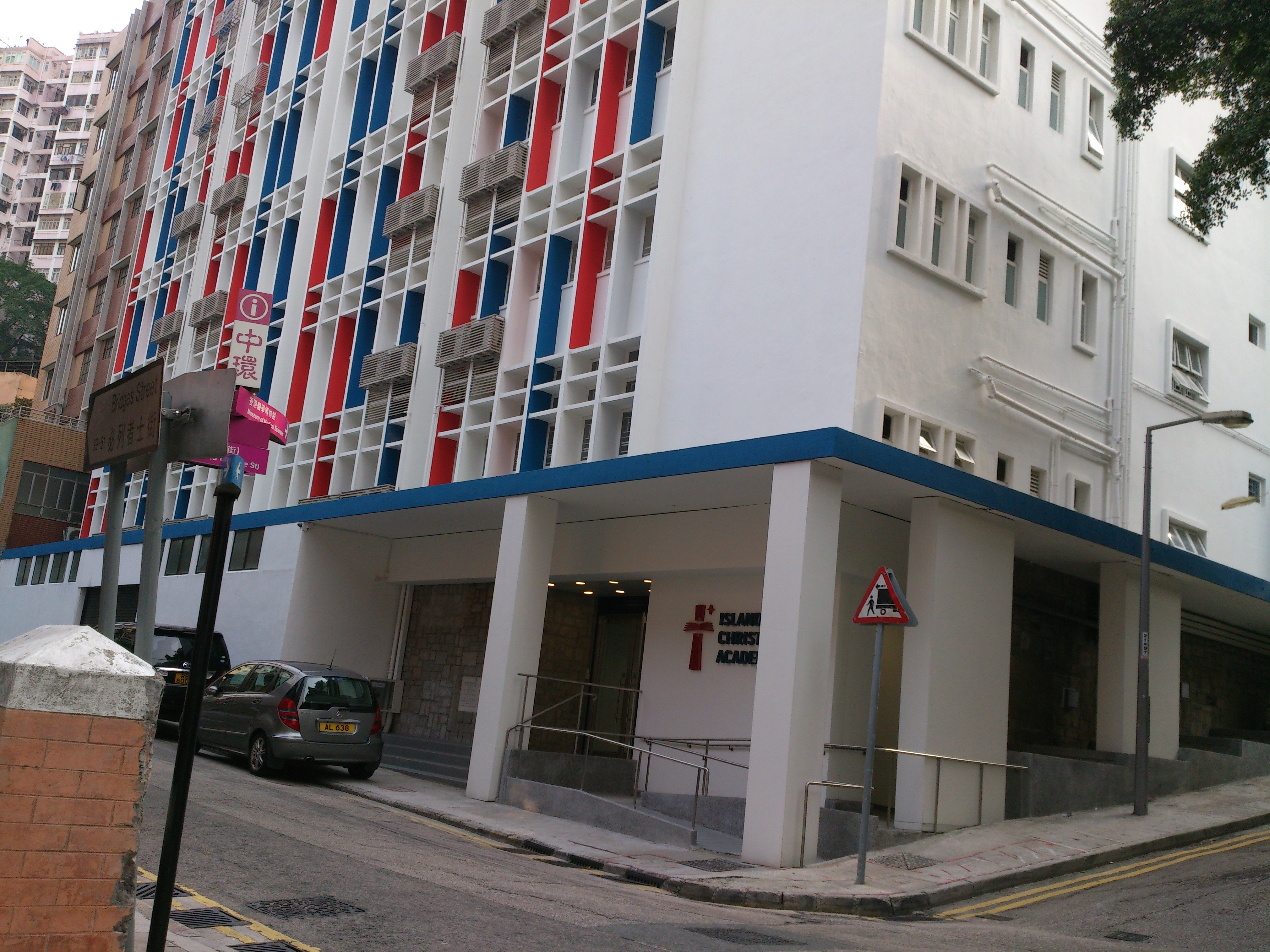 Island Christian Academy in Hong Kong Island